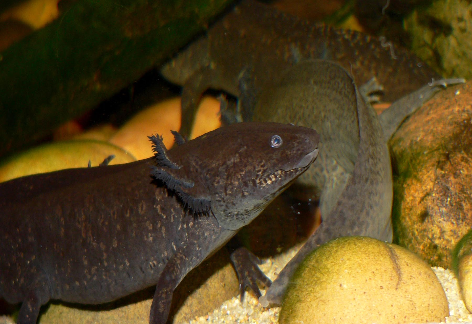 Photo of Ambystoma mexicanum (axolotl) at the Steinhart Aquarium in San Francisco